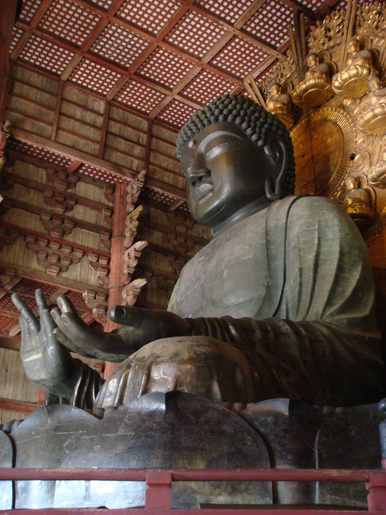 Daibutsu of Todaiji